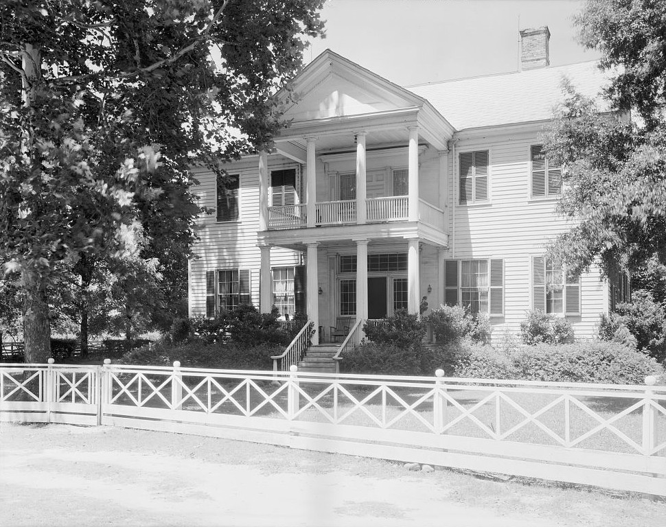 James Dellet House (Dellet Park), Claiborne, Monroe County, Alabama. From the Library of Congress' Carnegie Survey of the Architecture of the South.